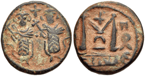 Æ Fals (17mm, 4.26 g, 6h). Pseudo-Byzantine type. Umayyad Caliphate. Uncertain period (pre-reform). Minted in Baalbek (Heliopolis) in 41-77 AH / 661-697 AD. . Two standing imperial figures holding cruciform scepters; cross between heads / Large M; cross above, Greek mint name (“Heliopolis”) flanking, Arabic mint name (“Ba‘albakk”) in exergue.